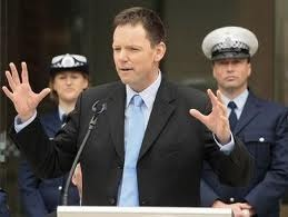 Bob Cameron openning a police station